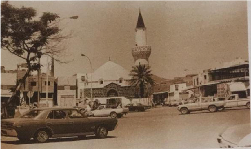 An old picture of the Mosque of Sayyidina Abu Bakr, may Allah be pleased with him Before the start of the comprehensive renovation of the mosque